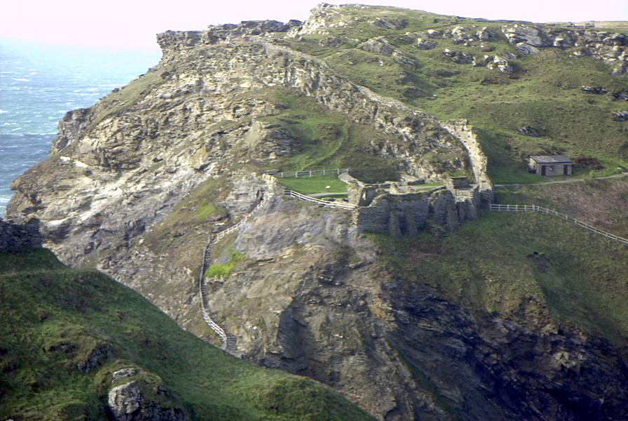 Ruins of Tintagel Castle